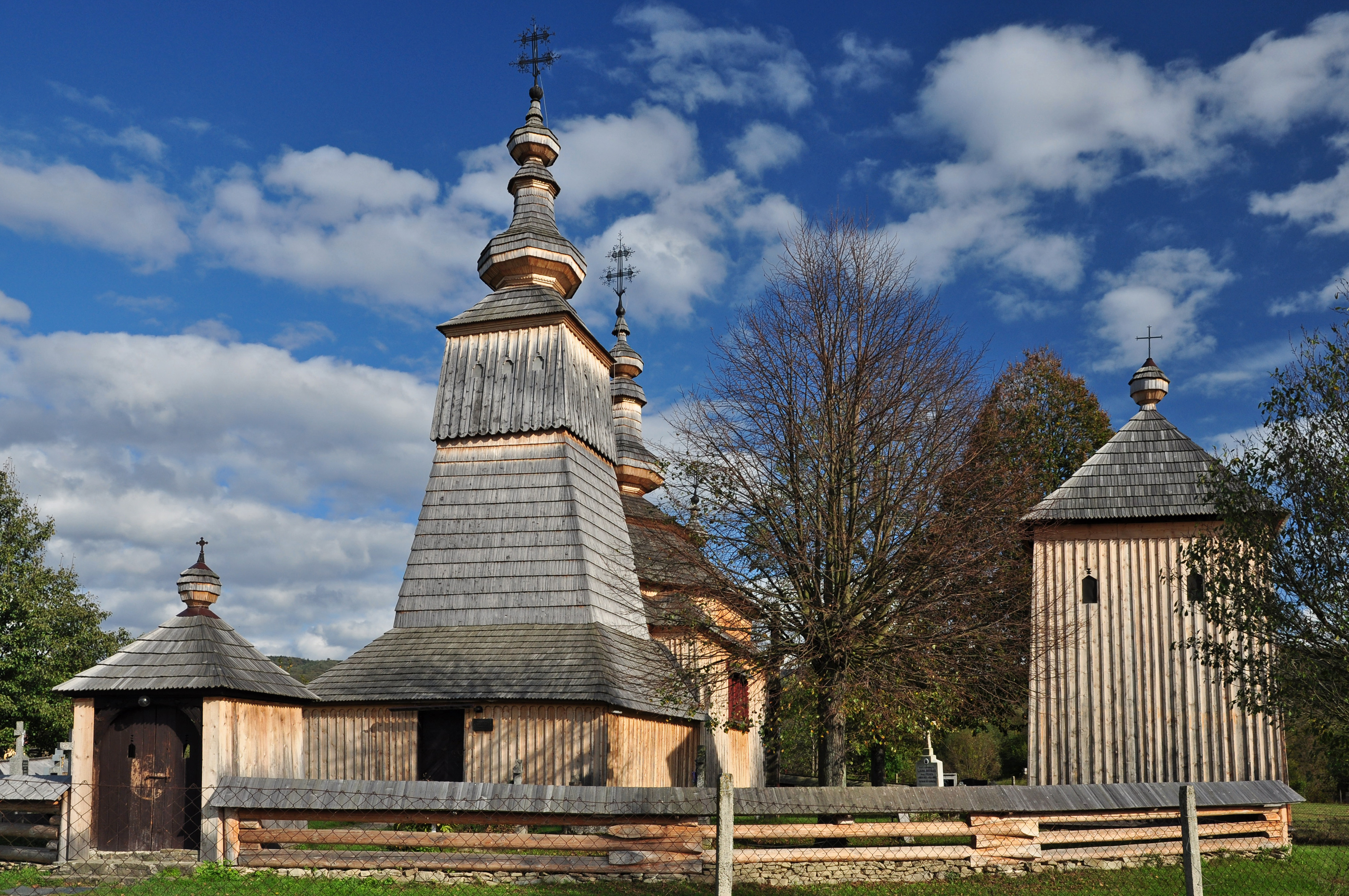 Wooden church in Ladomirova, Slovakia